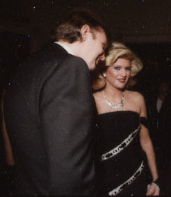 Reagan Photo Contact Sheet. Featured: President Reagan, Nancy Reagan, Donald Trump, Ivana Trump, Sigourney Weaver, King Fahd bin 'Abd al-'Aziz Al Sa'ud, (Not in all Photos). Blue Room, White House, Washington, D.C.